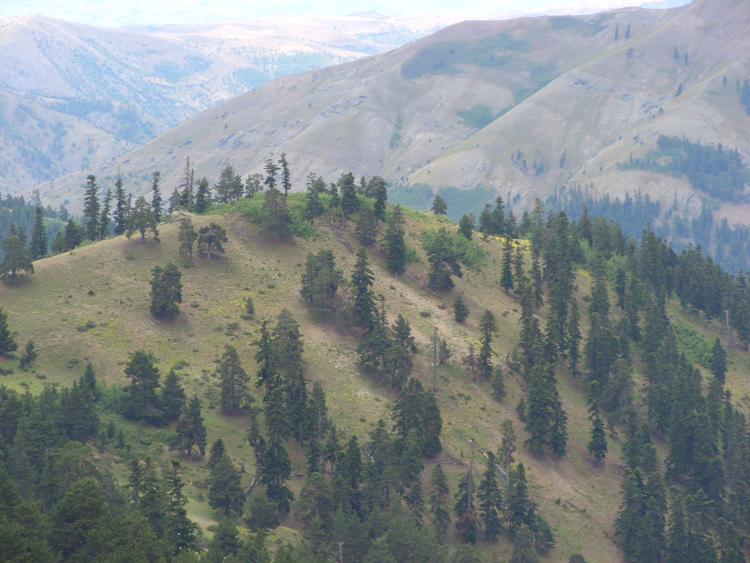 Abies_nordmanniana ("Doğu Karadeniz Göknarı" in Turkish). This photo was taken in Kurtbeli-Çekümbeli in Alucra district of Giresun Province, located in Black Sea Region of Turkey.